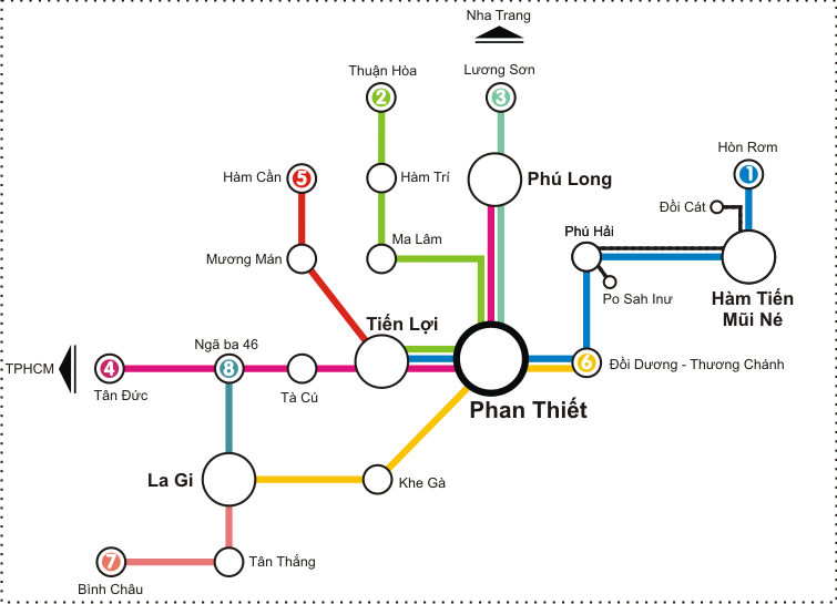 Bus routes in Binh Thuan Province